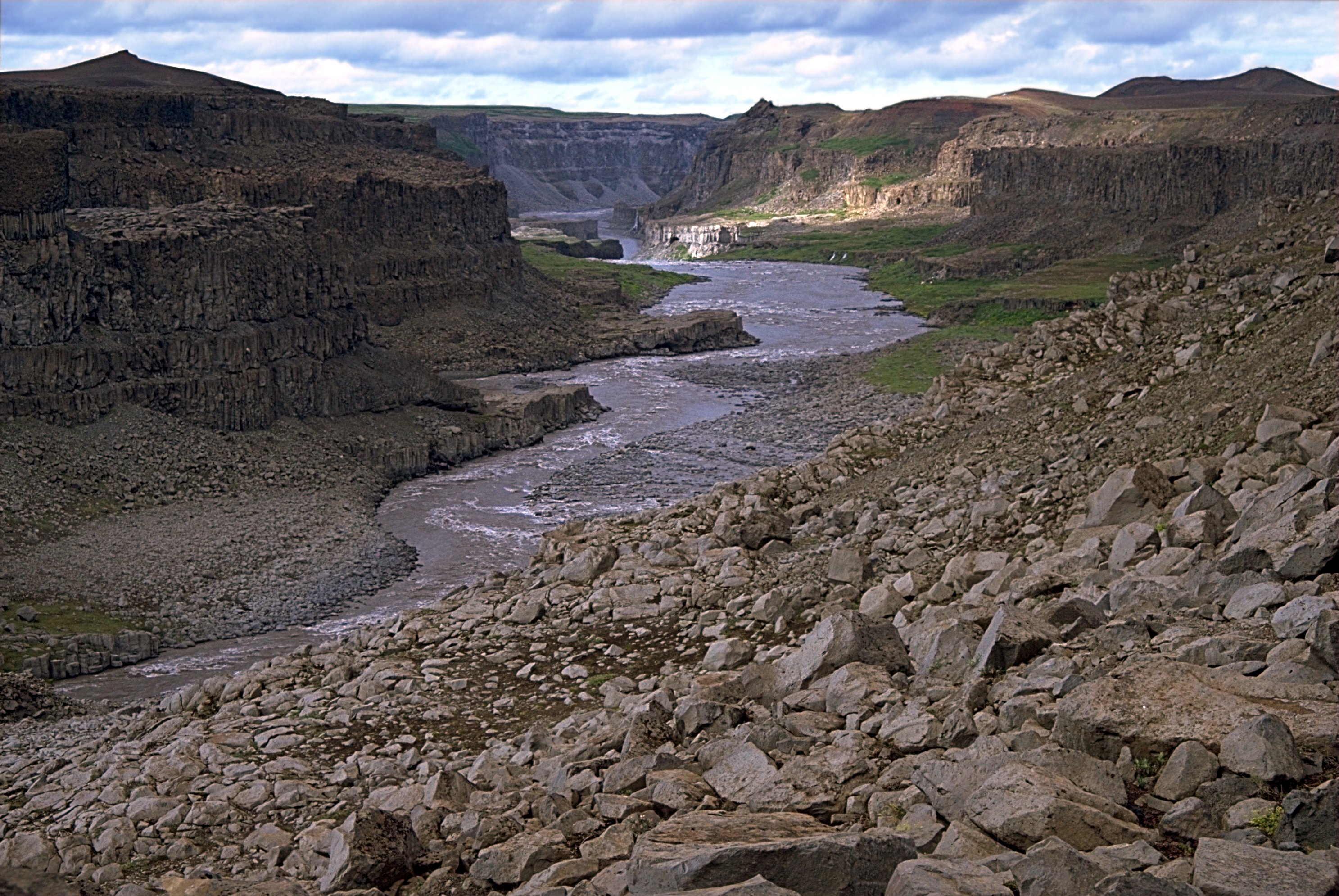 Valley of Jökulsá á Fjöllum past Dettifoss, Jökulsárgljúfur National Park, Iceland Photo was taken using the following technique: Film: Fuji Velvia Lens: 4/35-70 Filter: Body: Minolta Dynax 7 Support: Manfrotto 190B Image with Information in English Bild mit Informationen auf Deutsch